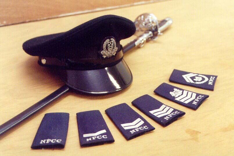 NPCC cadet ranks Created by : Delirious prince 09:15, 22 June 2007 (UTC)